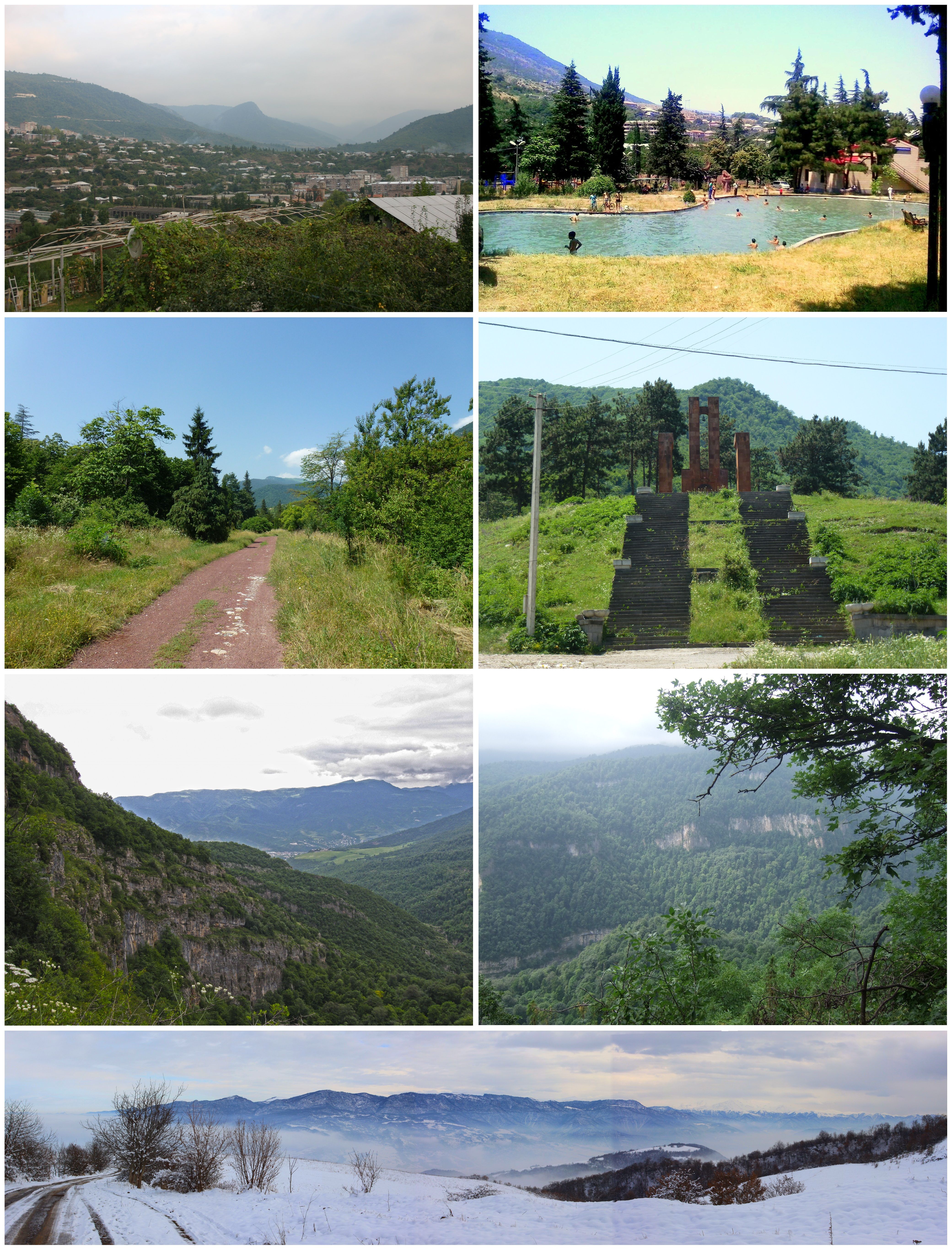 Ijevan, Tavush Province, Armenia.